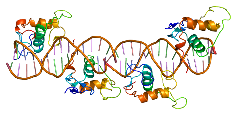 Structure of the RXRA protein. Based on PyMOL rendering of PDB 1by4.